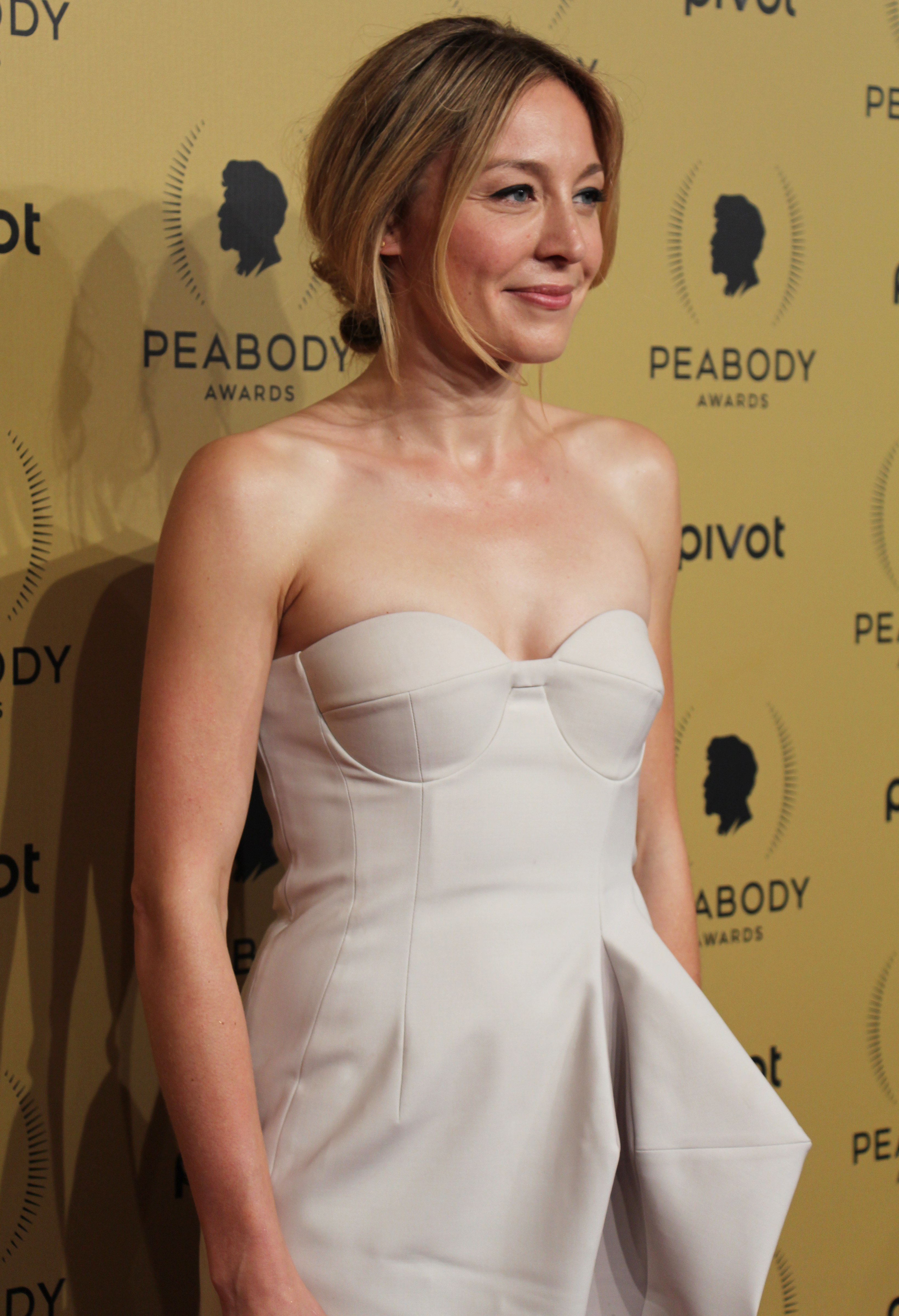 Juliet Rylance, who plays Cornelia Robinson on The Knick, arrives on the red carpet. Cipriani Wall Street